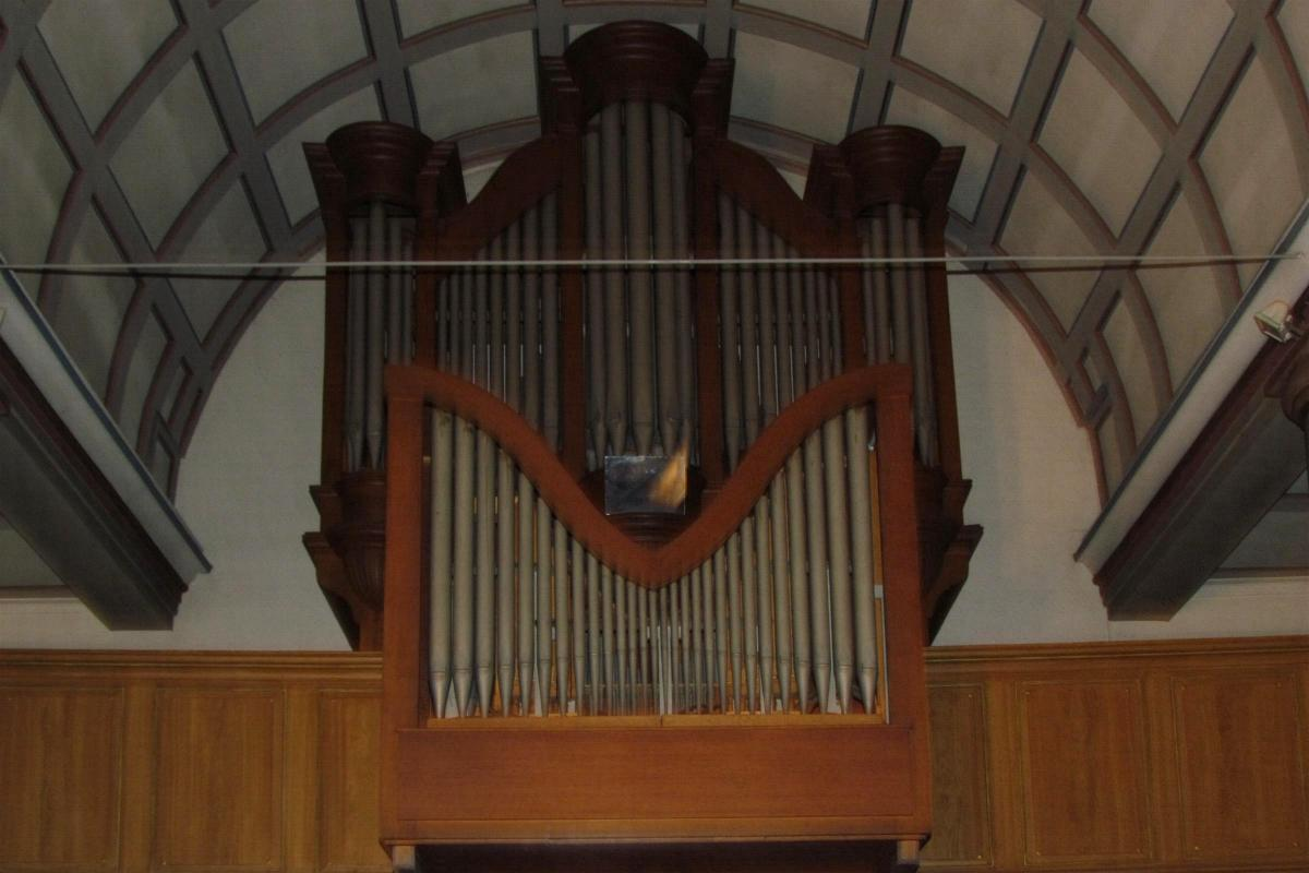 Kirche Rath-Anhoven